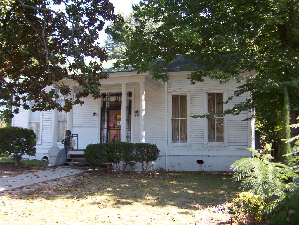 Burkle Estate (Slavehaven) in Memphis, Tennessee. Front view of the main building. I made the photo myself, feel free to use it.